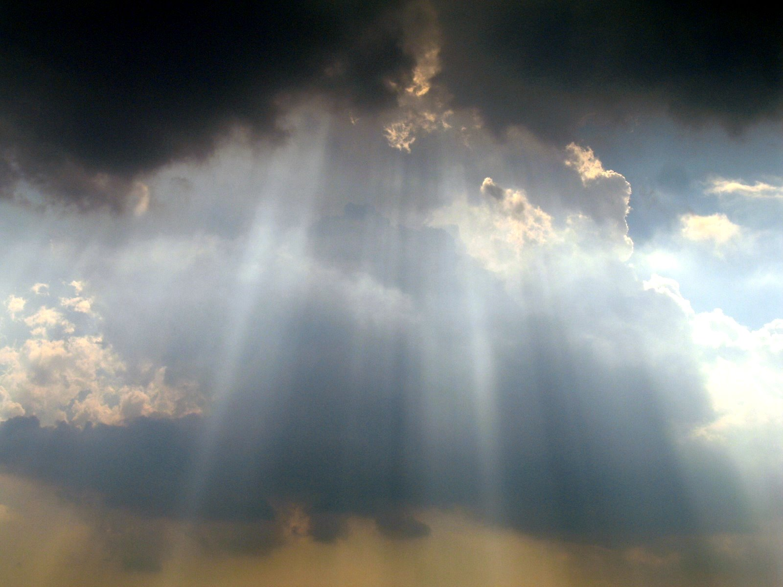 Picture of crepuscular rays of light shining through clouds near the Washington Monument in Washington, D.C.